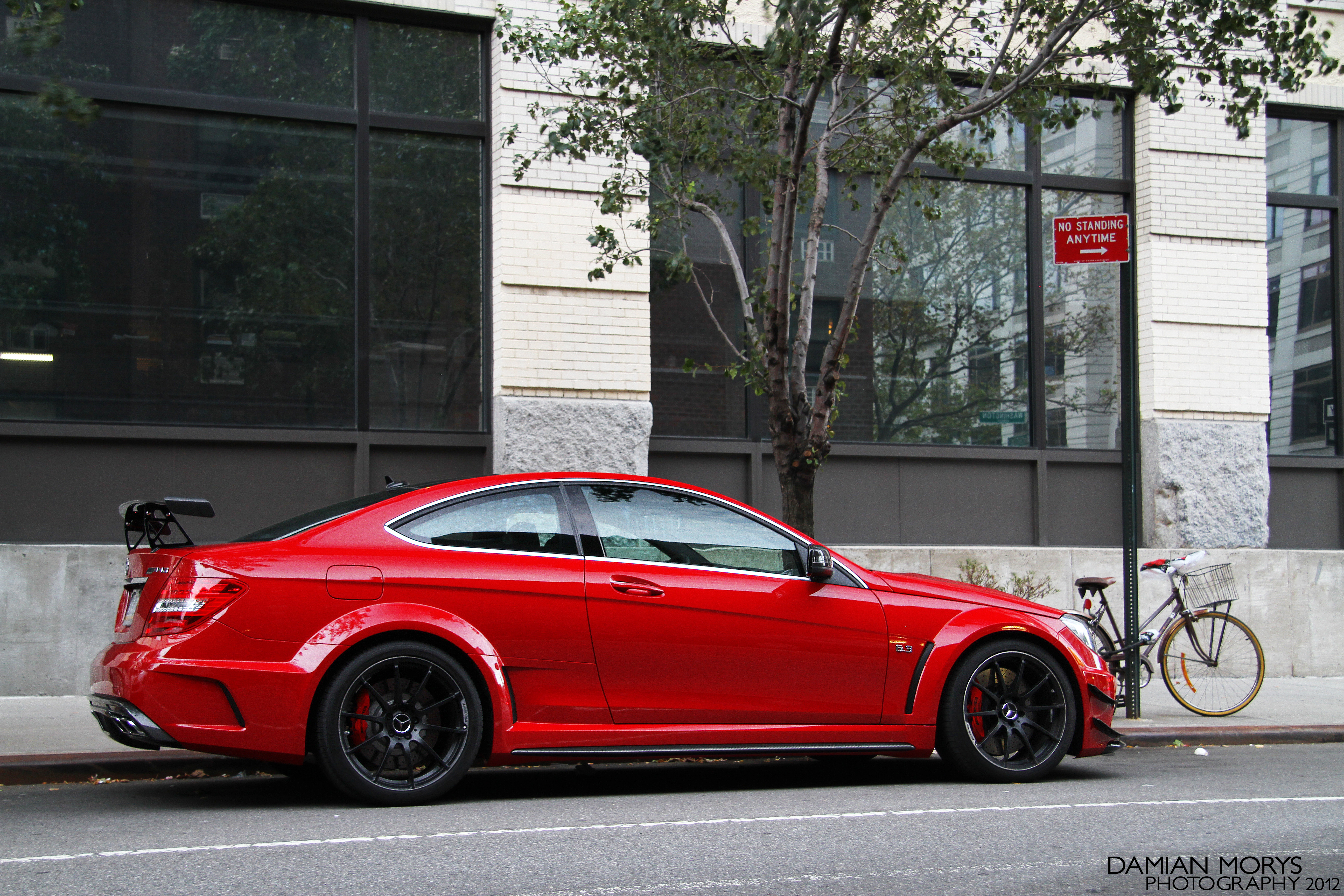 Such a brutal looking car, I love it!